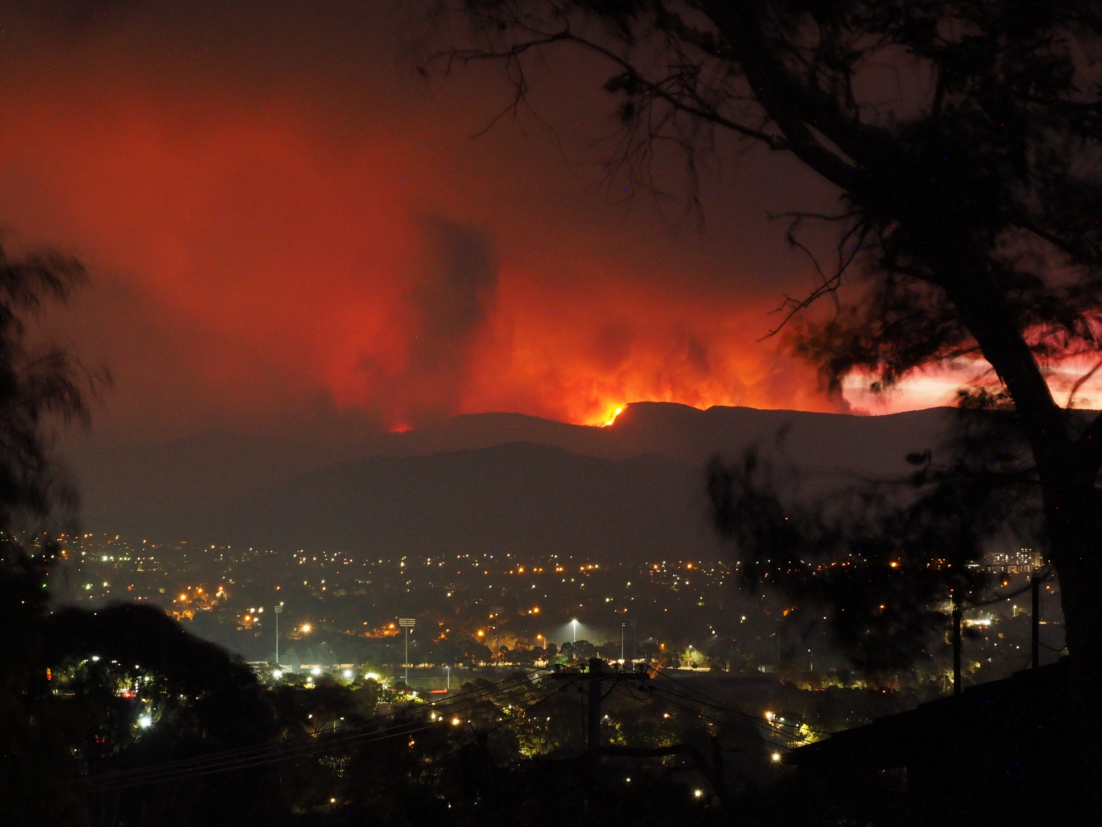 The Orroral Valley Fire viewed from Tuggeranong on the evening of 28 January